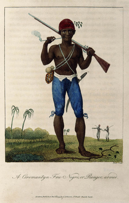 Blake after John Gabriel Stedman, Narrative of a Five Years Expedition copy 2 1796 Huntington Library and Art Gallery